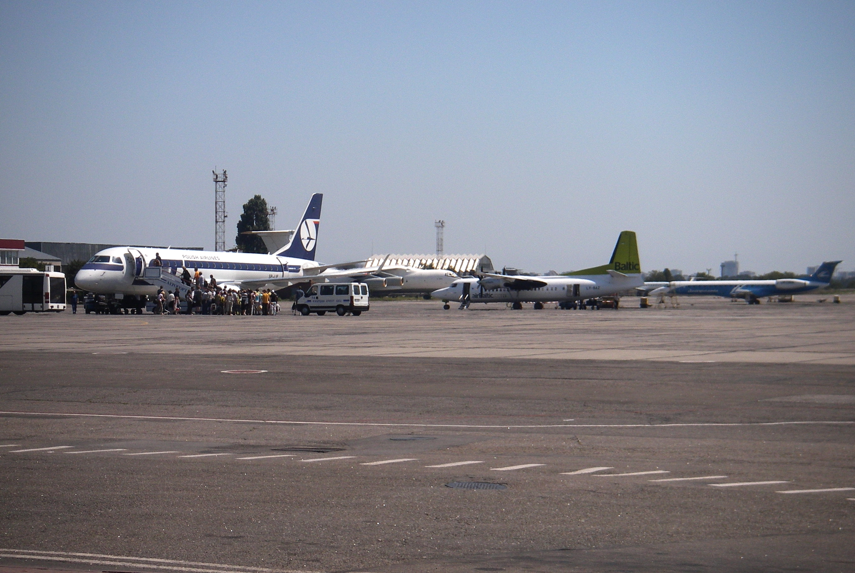 Odessa International Airport.